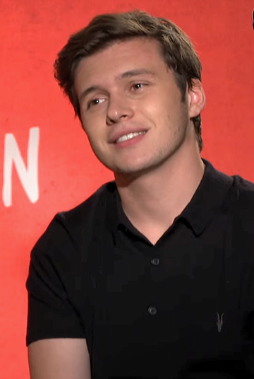 Nick Robinson in an interview in 2018